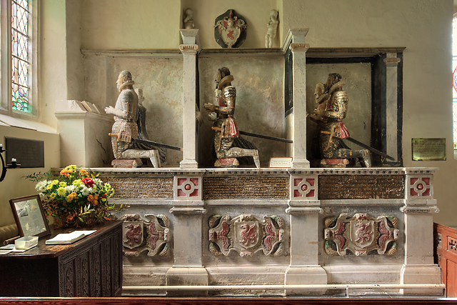 St Michael's church, Musbury - Drake monument